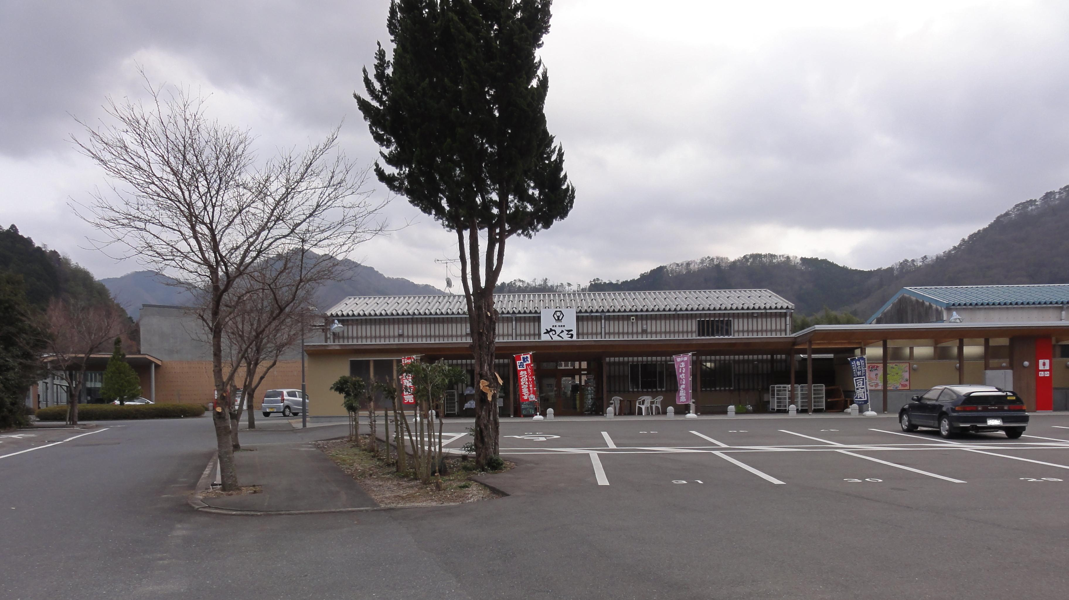 Roadsaide station Muikaichi hot spring,Shimane prefecture,Japan